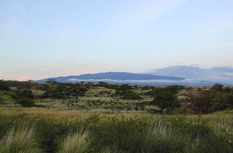 HualÄ lai volcano, Island of Hawaiâ€˜i, at sunrise; photograph by Eric Guinther.